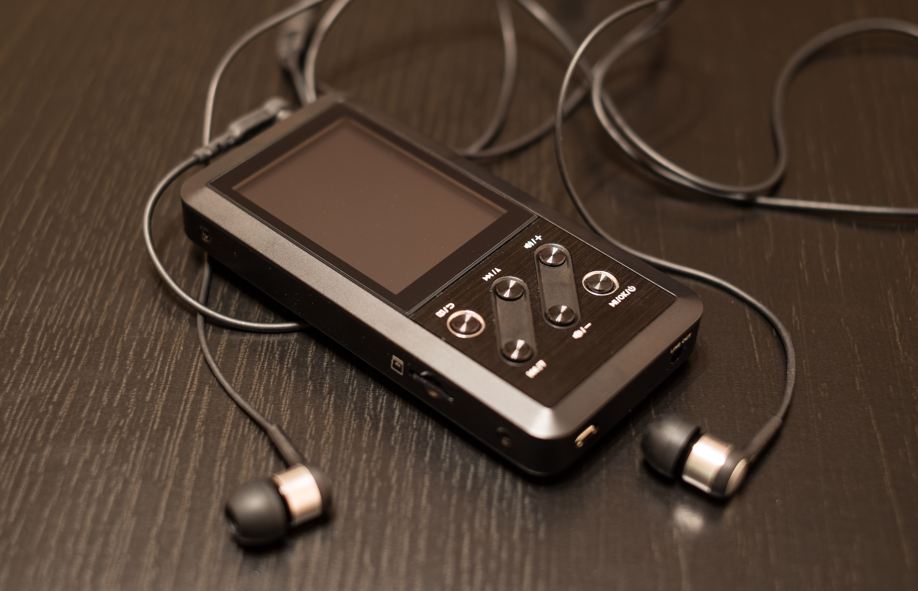 FiiO X3 Portable Music Player with in-ear headphones